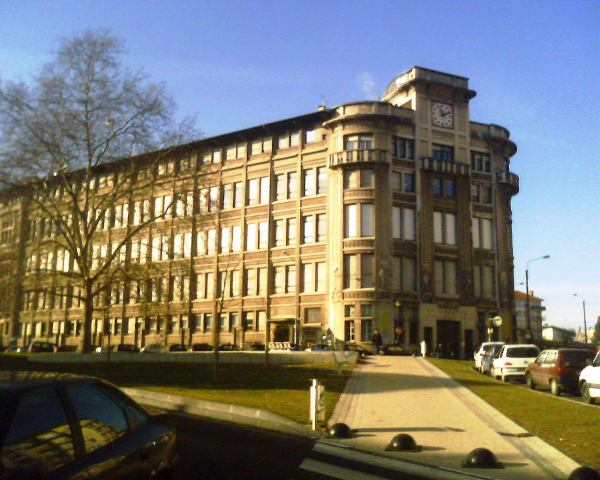 The Jules Haag College of Besancon, seen from Villarceau Avenue